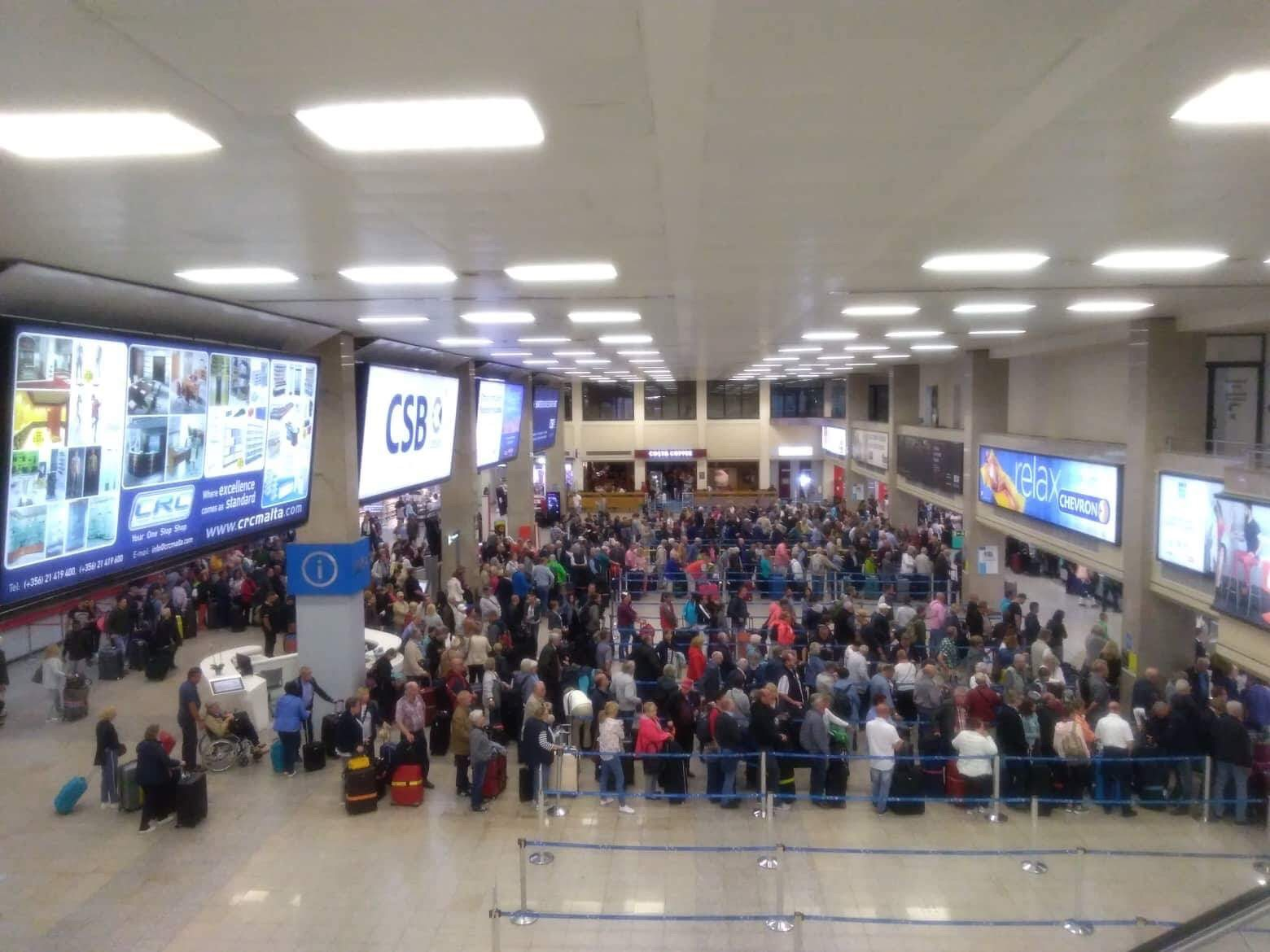 Malta 2018